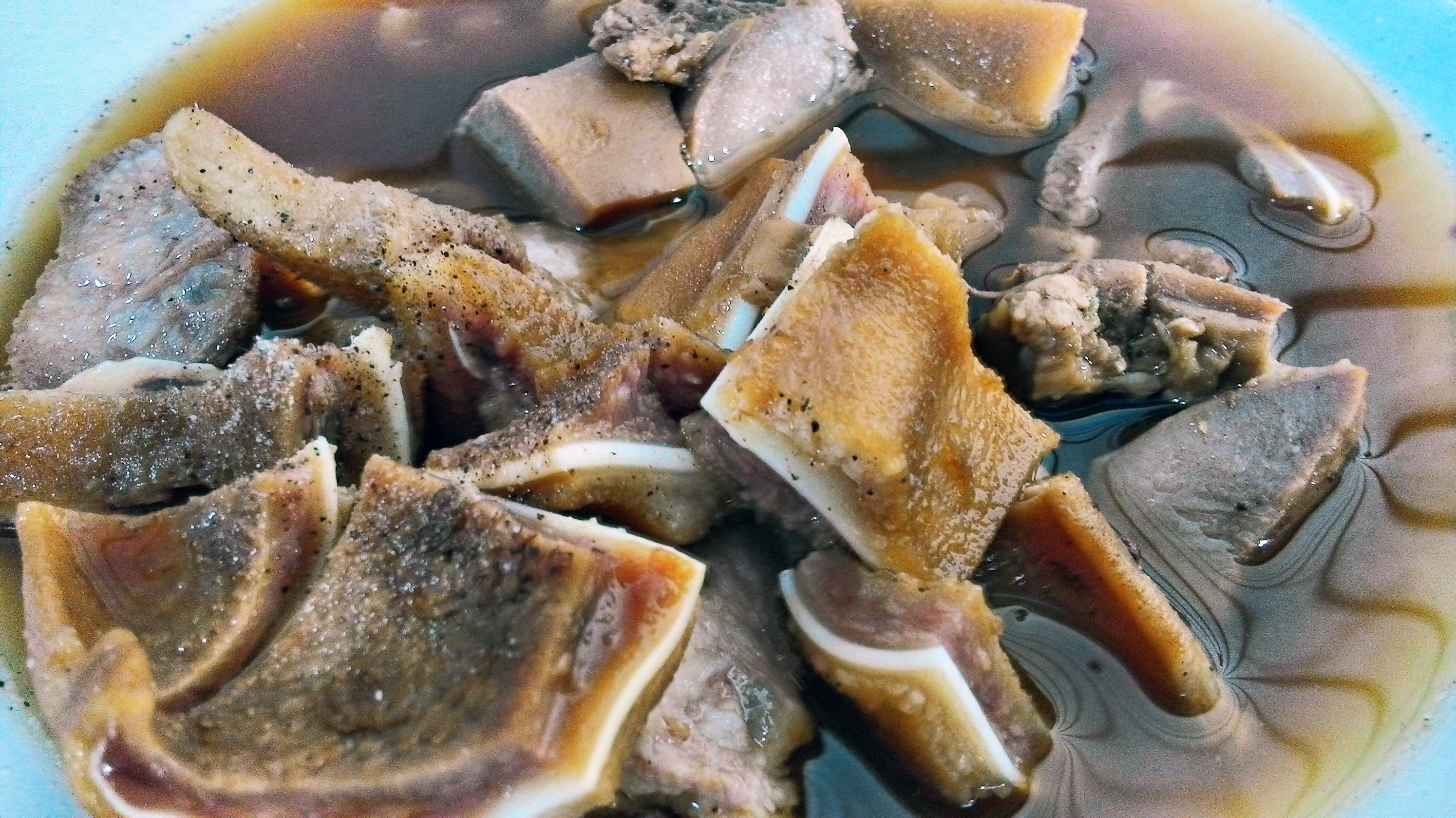 Sekba or Bektim, a Chinese Indonesian pork offal and meat stew, served in soy, garlic, and Chinese herb soup. Customer might choose the type of pork offals in their dish. This dish contains three kinds; ear, tongue and meat. Gloria alley, Glodok Chinatown in Jakarta, Indonesia.